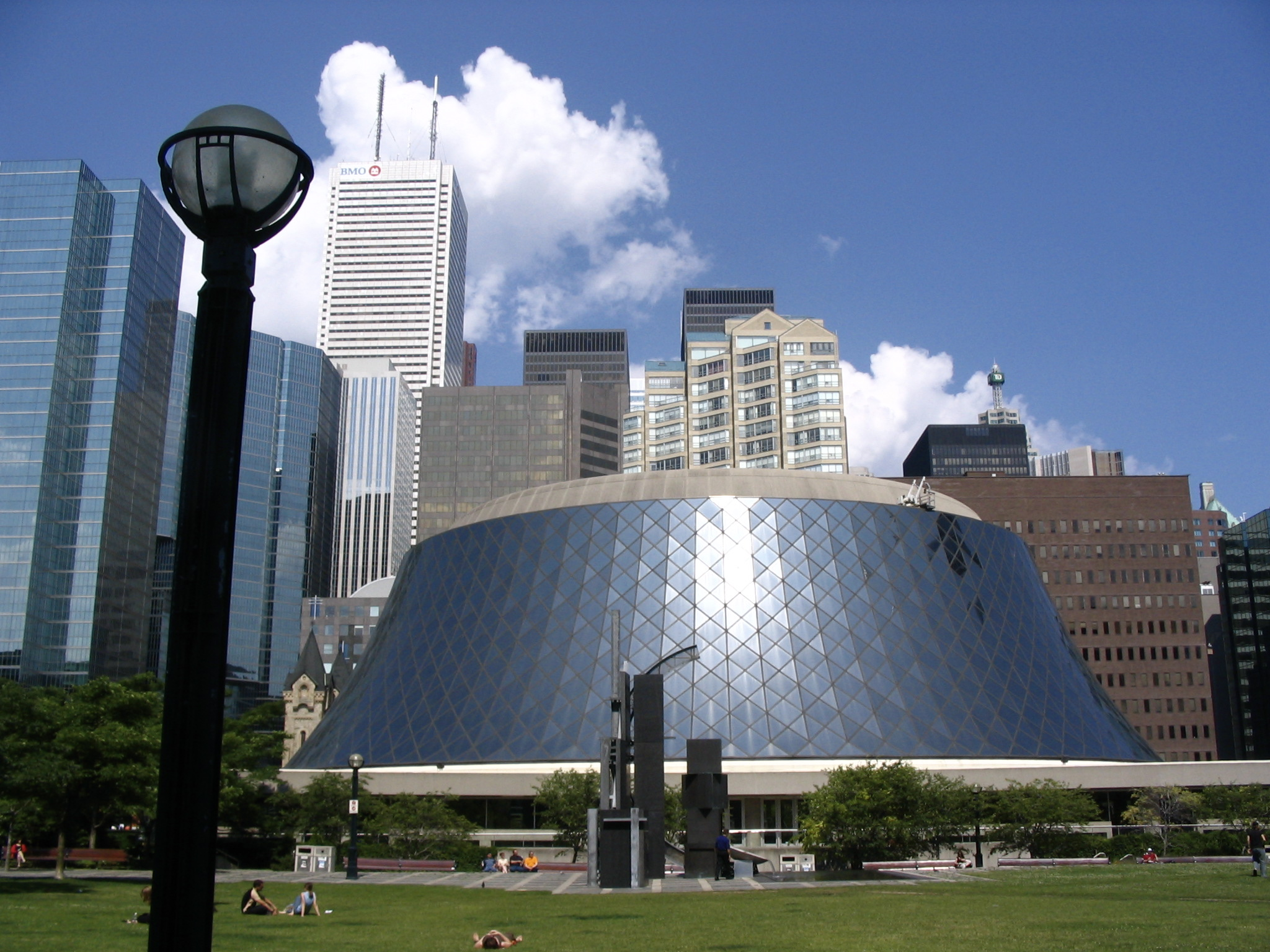 wanna hear a crazy story?